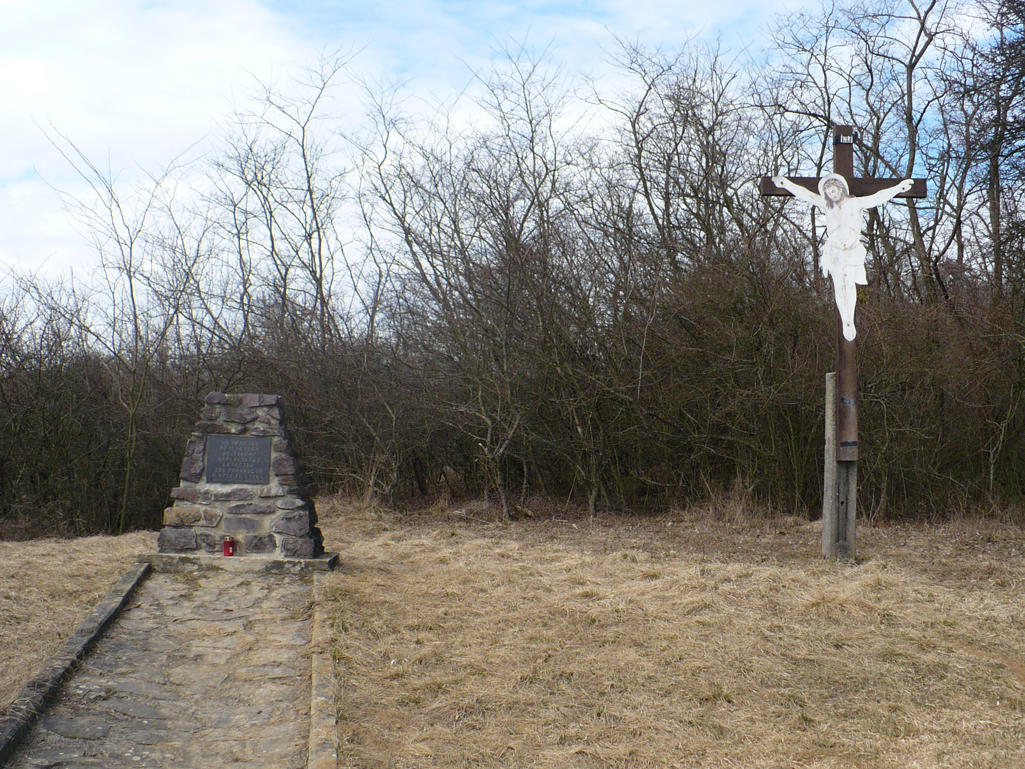 Memorial of fallen plane of RAF which crashed near village Němčičky, Znojmo District, (Czech Republic).